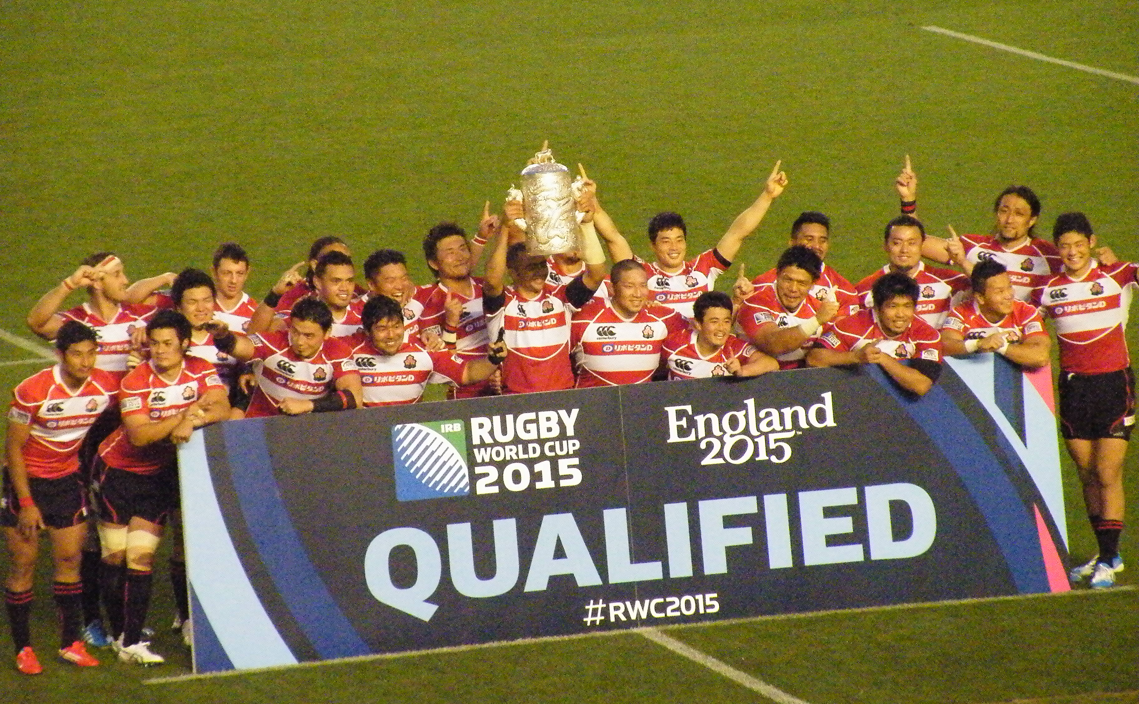 Japan national rugby union team in 2014 Asian Five Nations (National Olympic Stadium, Japan)